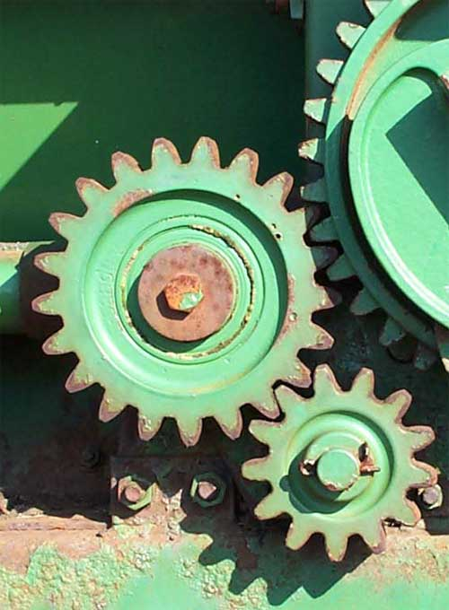 Photograph of spur gears on a piece of farm equipment.